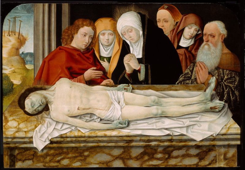 Oil painting of the Entombment